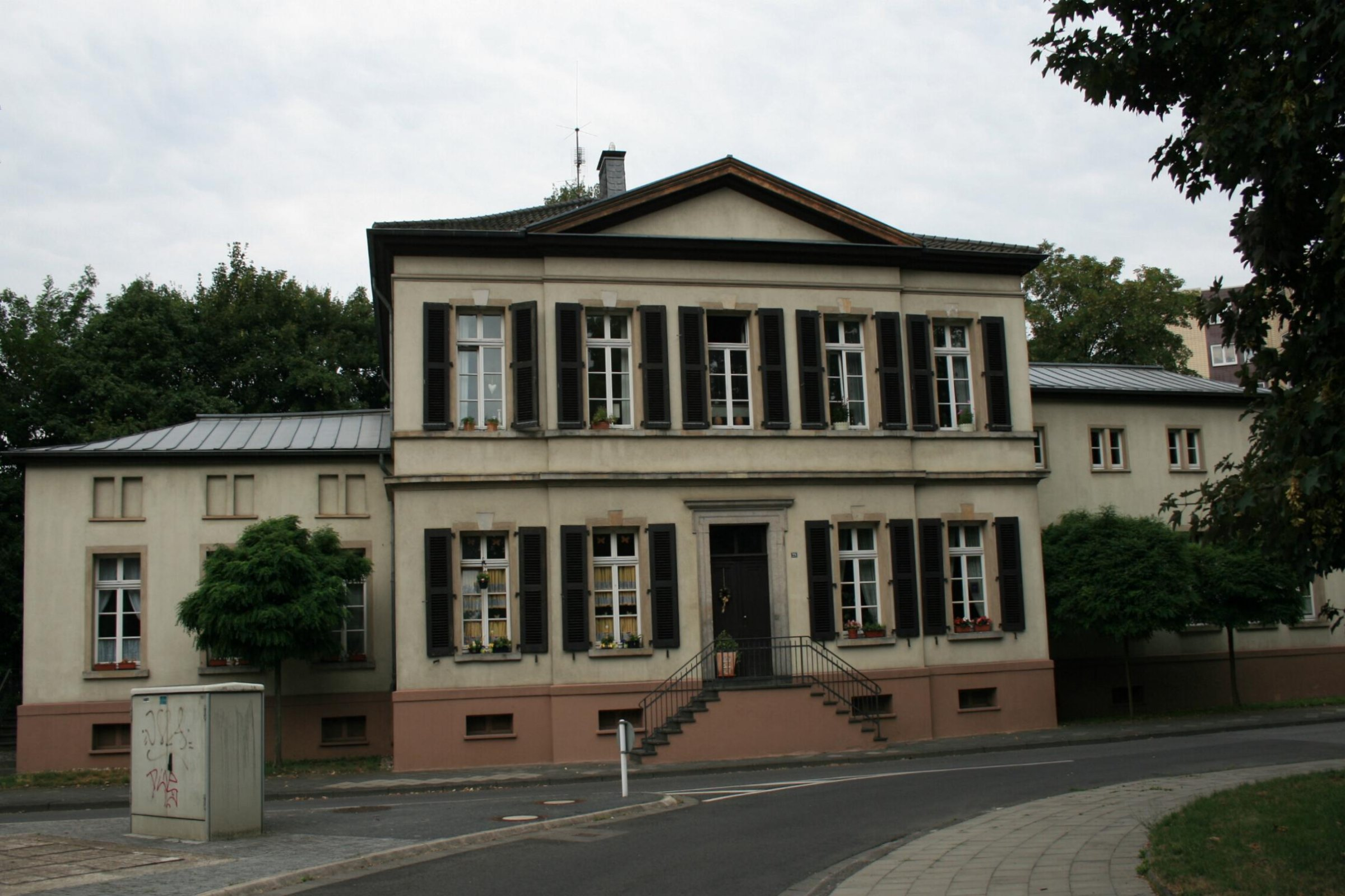 Cultural heritage monument No. F 010 in Mönchengladbach